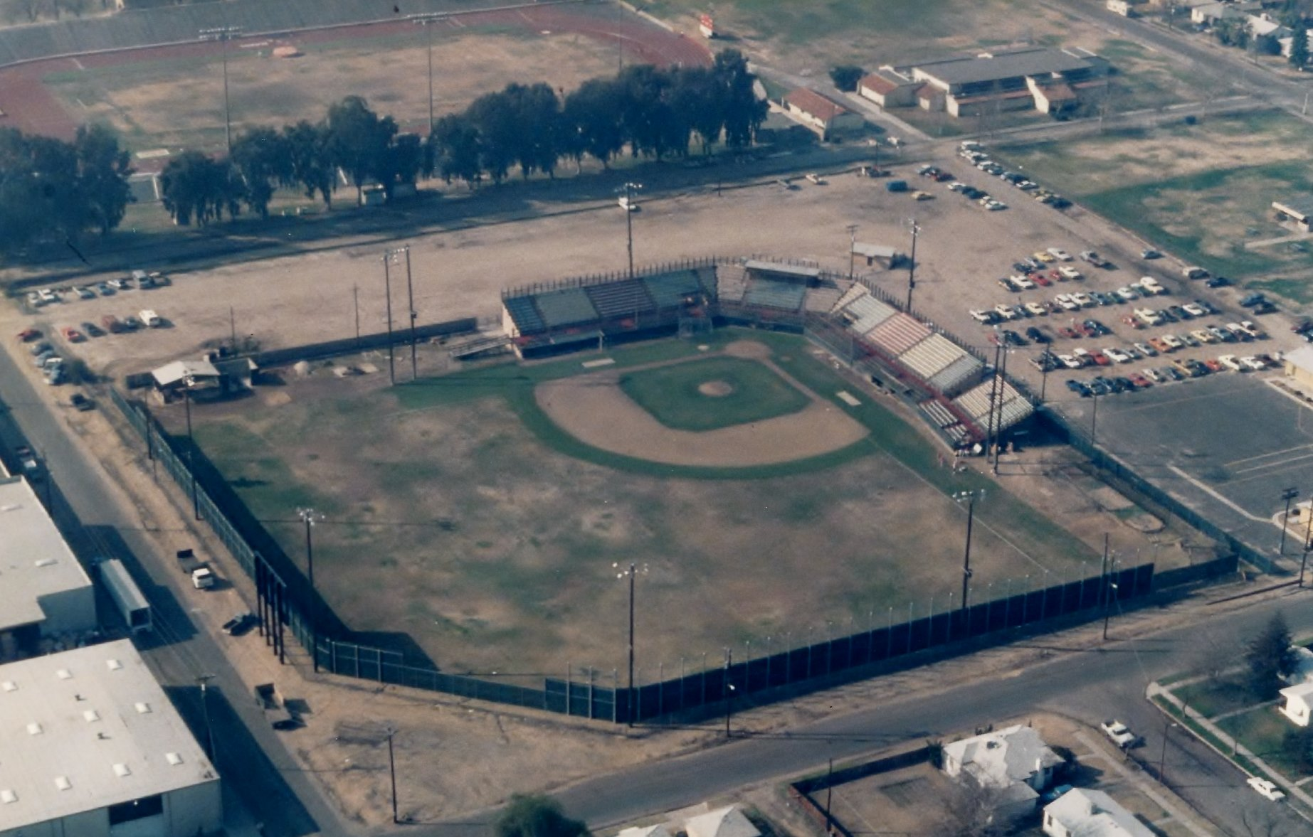 Aerial photo of Euless Park